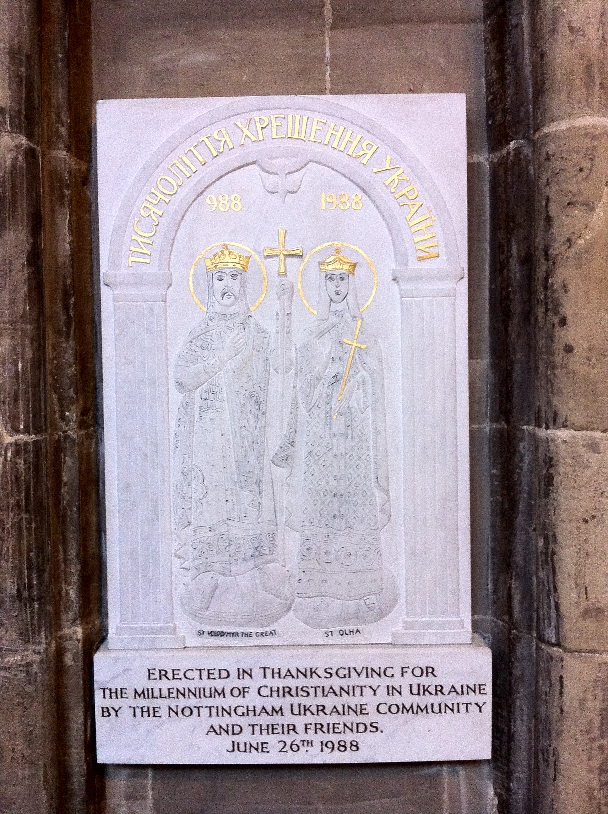 Stone monument in the Church of England parish church of St Mary, Nottingham, England, commemorating the millennium of Christianity in Ukraine, erected by the Nottingham Ukraine Community 26 June 1988